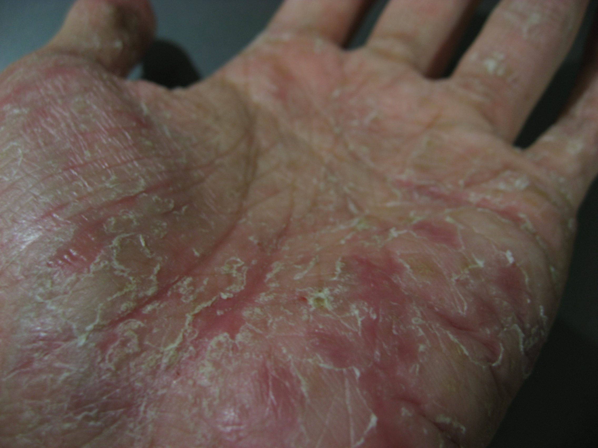 Advanced stage of palmar dyshidrosis showing peeling and cracked skin. The subject of the photograph has given permission for this picture.